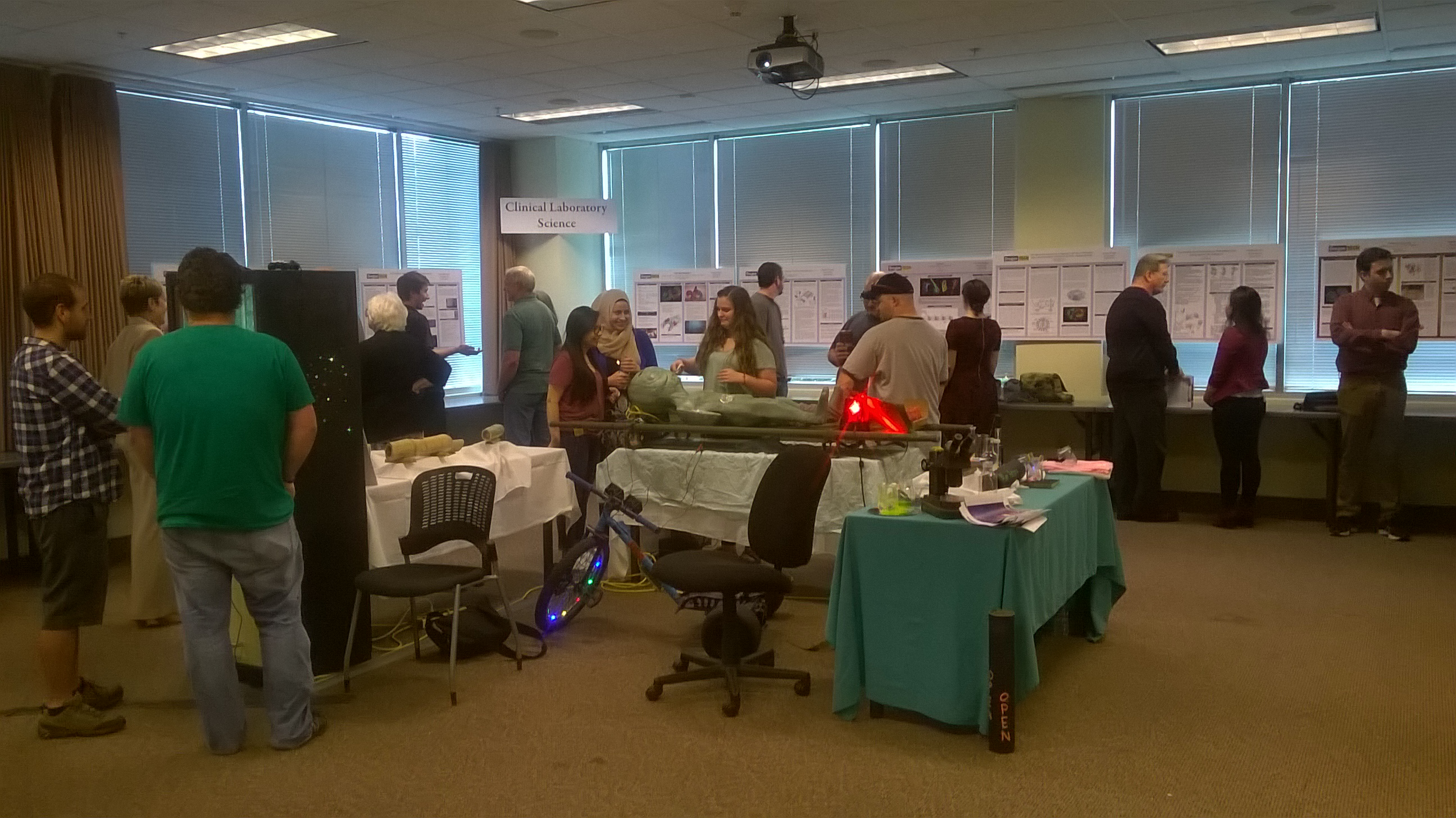 Part of the Clinical Laboratory Science section and Group Communication projects of the 2016 Symposium.